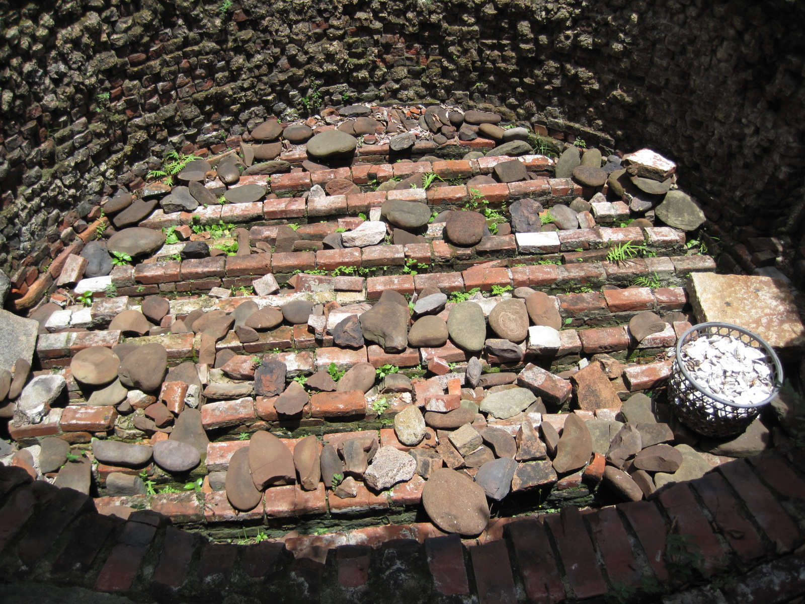 Oyster shell cement klin, at Anping, Tainan, Taiwan.